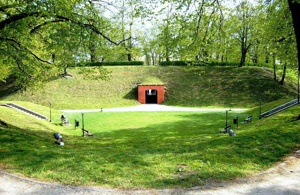 Town Park in Zamość - the area of bastion IV and the postern (tunnel) with passing through the cavalier